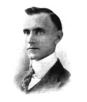 Howard Llewellyn Swisher (September 21, 1870 – August 27, 1945) was an American businessperson, real estate developer, orchardist, and historian in the U.S. state of West Virginia. Portrait of Howard Llewellyn Swisher from: Biographical Publishing Company (1903) Men of West Virginia, Volume 1, Chicago, Illinois: Biographical Publishing Company OCLC: 3463313.